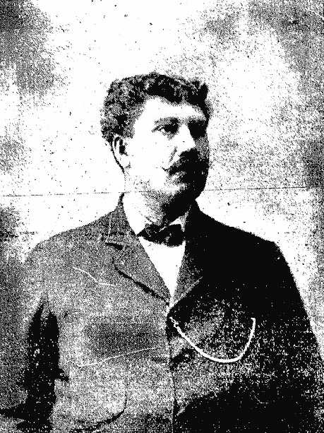 Charles Kahiliaulani Notley (April 20, 1861 – September 3, 1930).